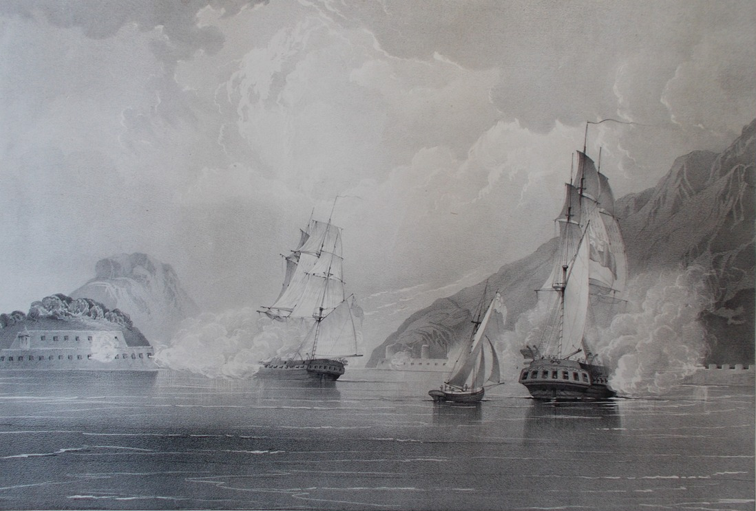 Forcing the passage of the Bocca Tigris, China, on the 7th and 9th September 1834, showing HMS Imogen (left), the cutter Louisa (centre), and HMS Andromache (right). Far left is the Wangtong Fort and the others are the Anunghoy Forts.